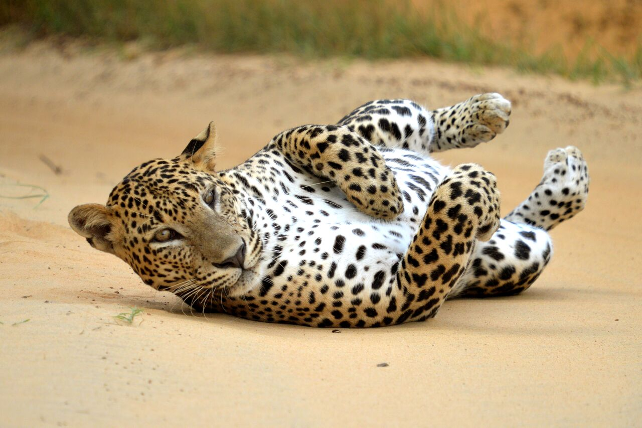 Also known as Panthera pardus kotiya, this sub species was declared an endangered species in the IUCN red list in 2008. The Sri Lankan leopards could be spotted during leopard safari in Sri Lanka especially in areas such as Yala National Park, Wilpattu National Park and Udawalawe National Park.